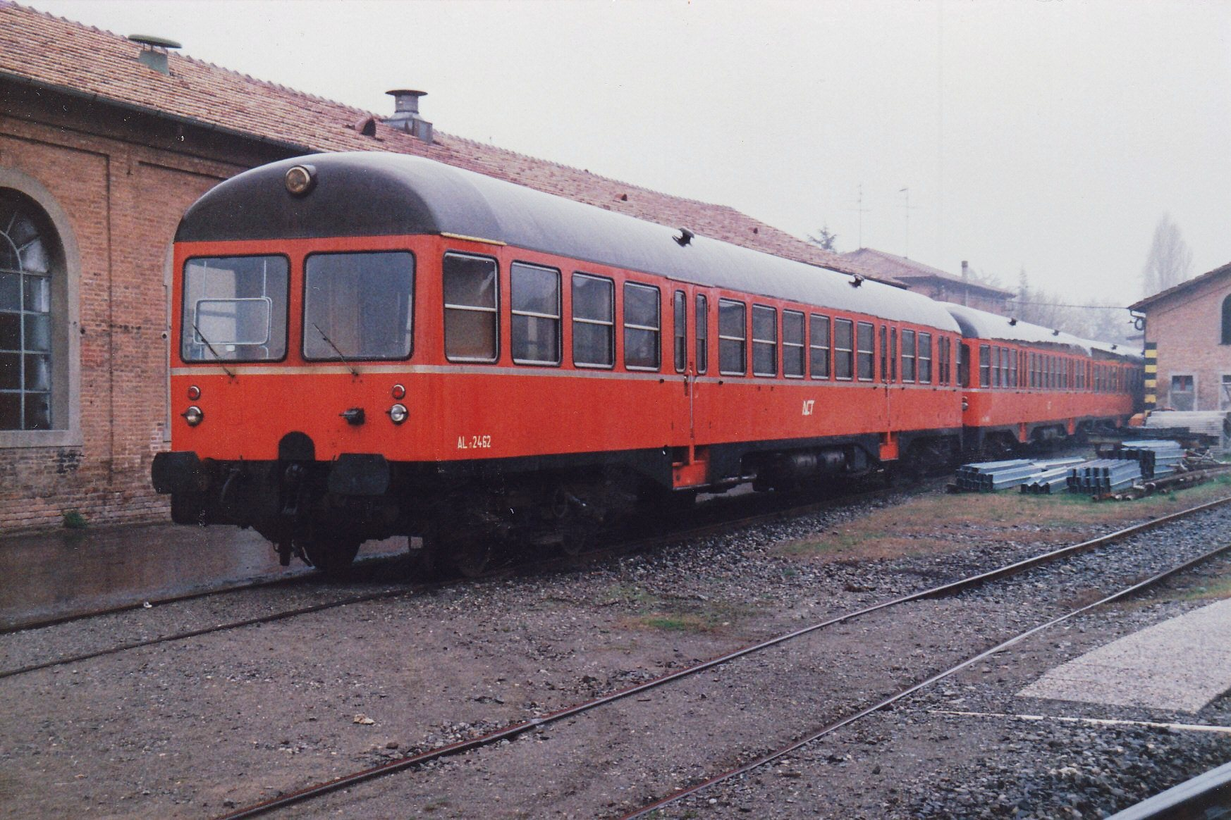 Diesel railcar ACT ALn 2462 at Reggio Santa Croce in 1988